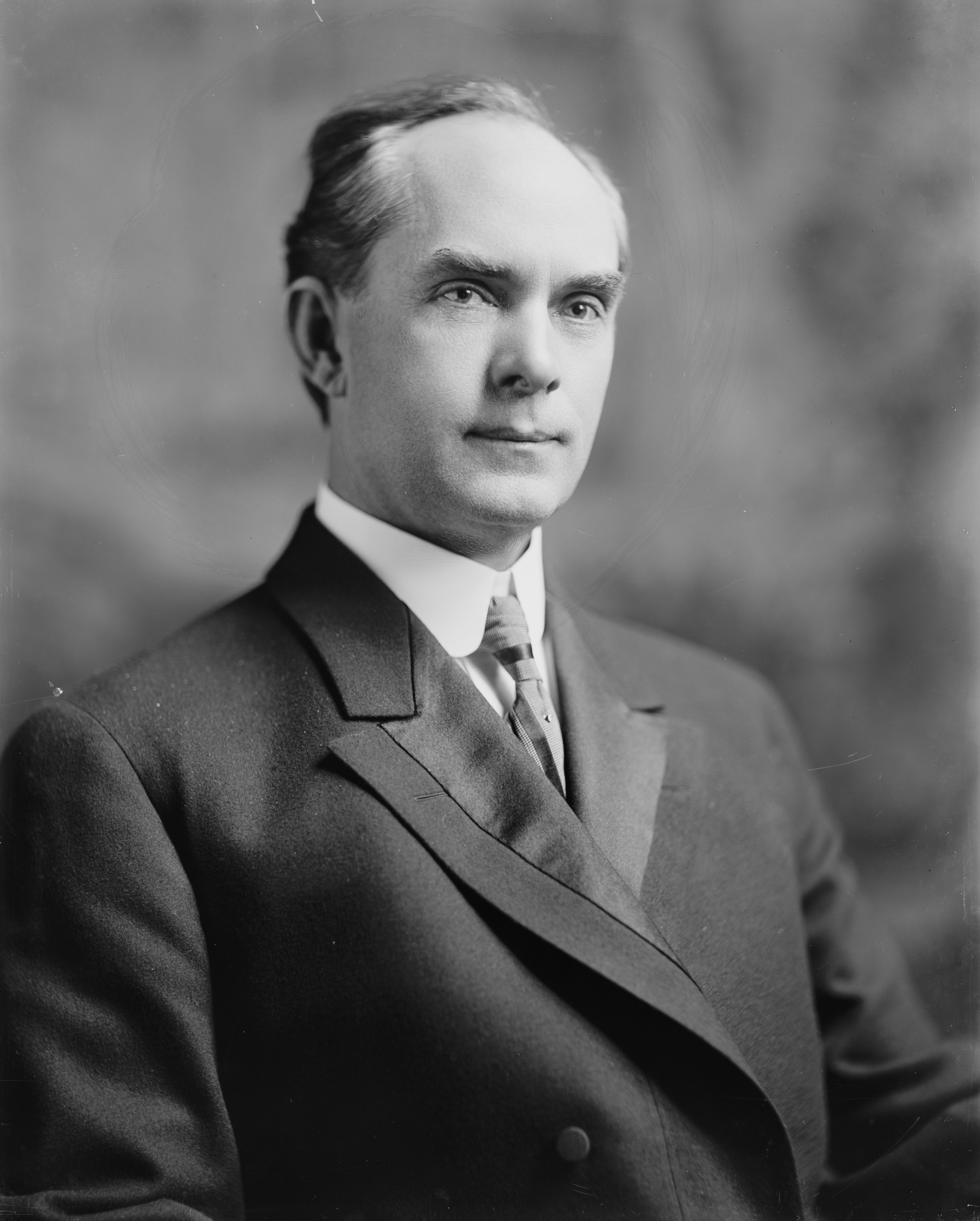 Title: HENRY, ROBERT L. HONORABLE Abstract/medium: 1 negative : glass ; 8 x 10 in. or smaller